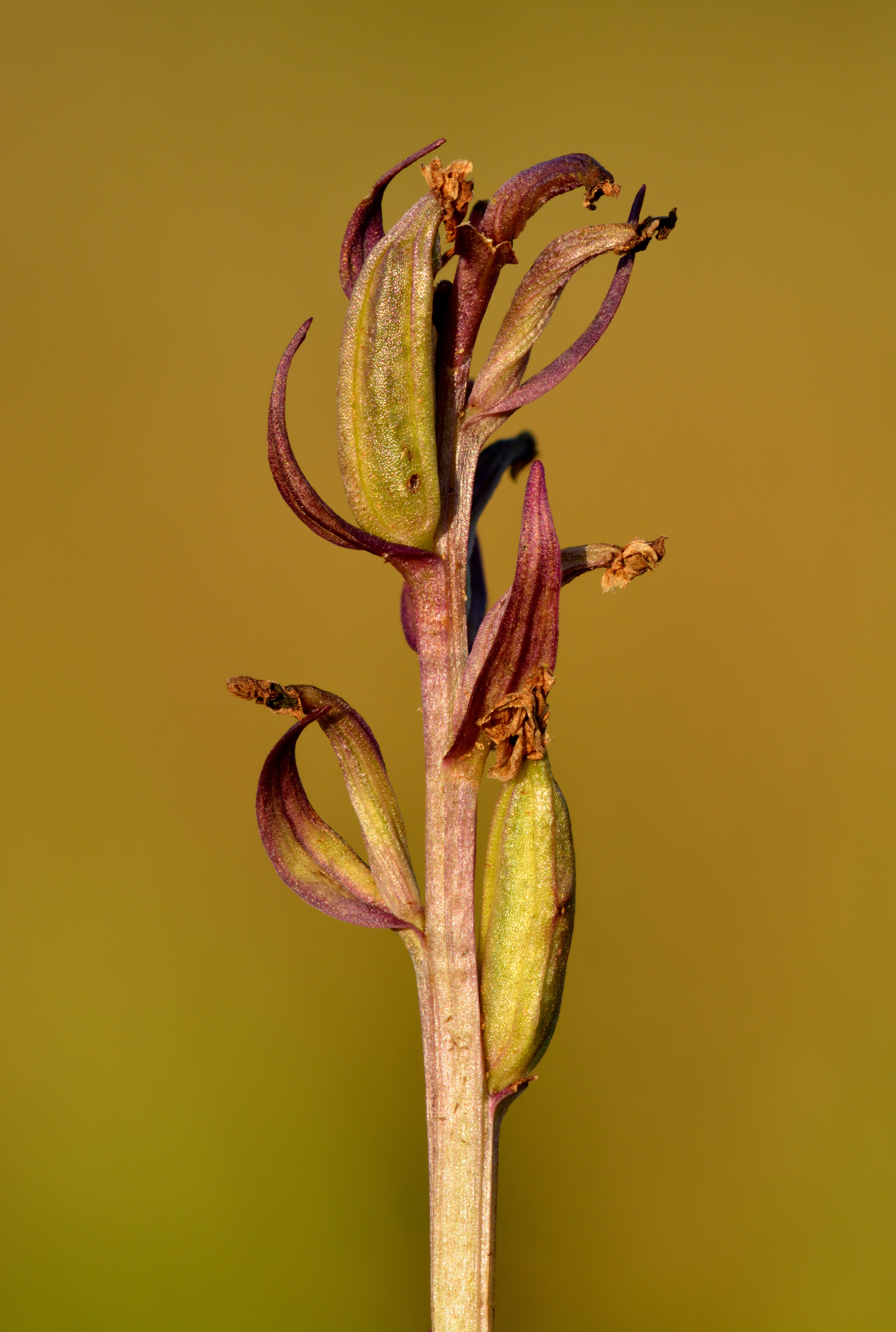 Infructescence of the narrow-leaved marsh-orchid